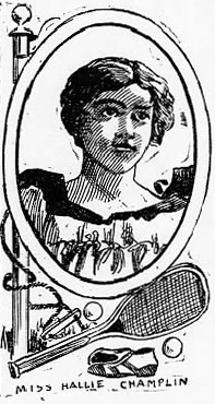 Newspaper illustration of Hallie Champlin, found at the head of the article "Tennis Champions," published in the McCook Tribune, July 13, 1900, page 3.